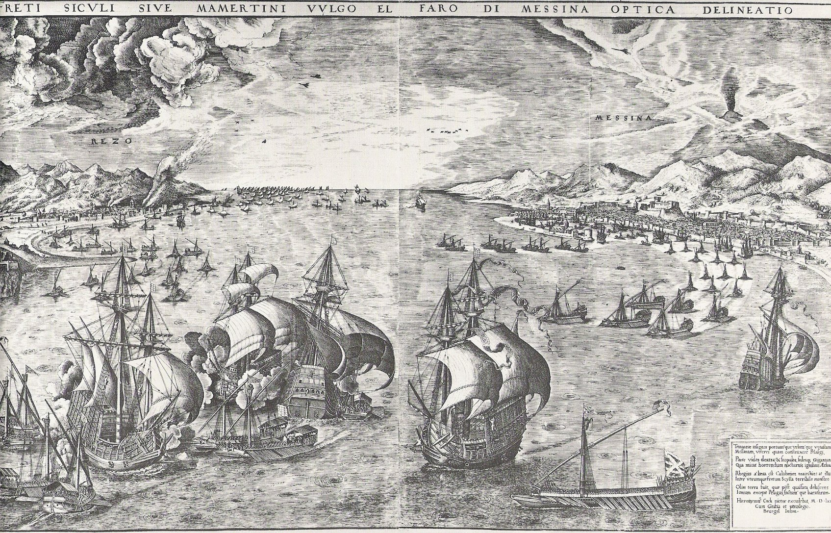 Battle of the Strait of Messina, engraving